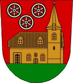 Coat of Arms of Kirchheim